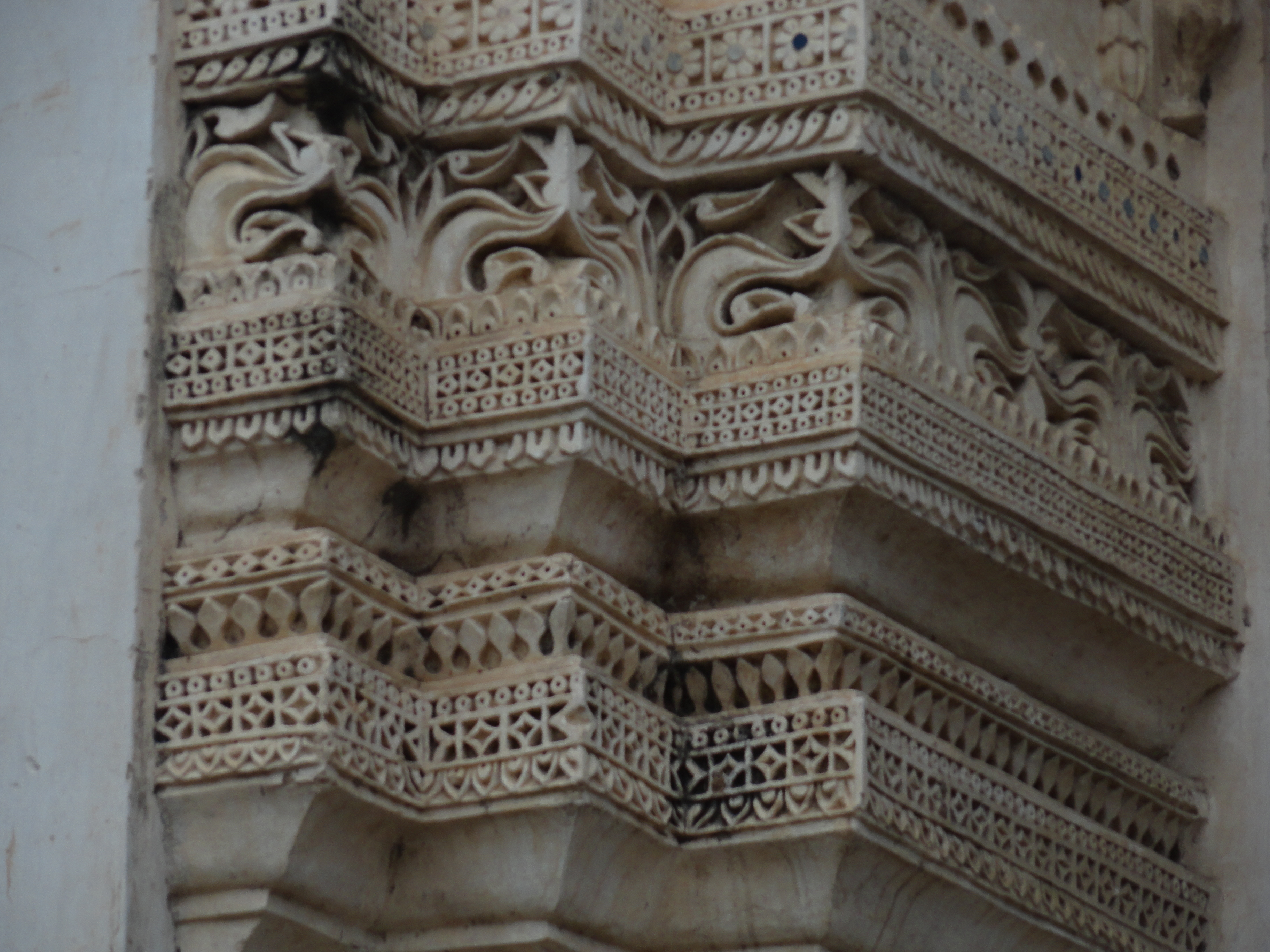 a desigine on the entrance .... golkonda fort inner fort